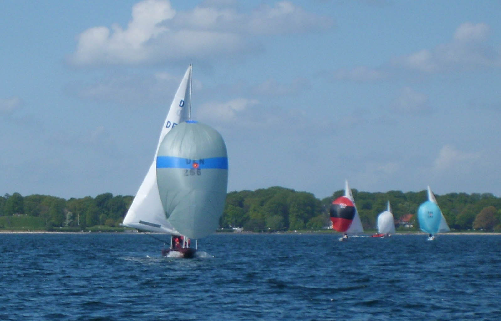 Yachts race in the Sound, Denmark